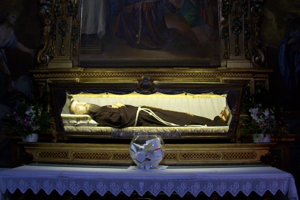 Beato Berzo, Berzo Inferiore, Val Camonica